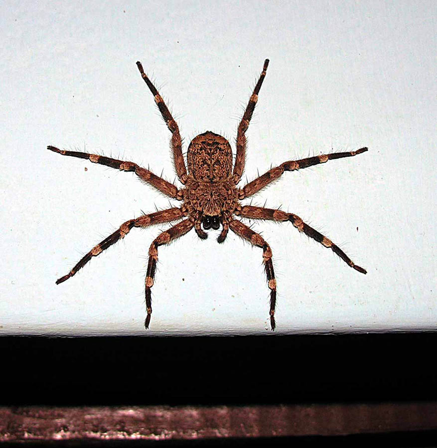 A room mate in Mbinga, Tanzania. Selenopidae. One of the wall crab spiders, likely Selenops radiatus.